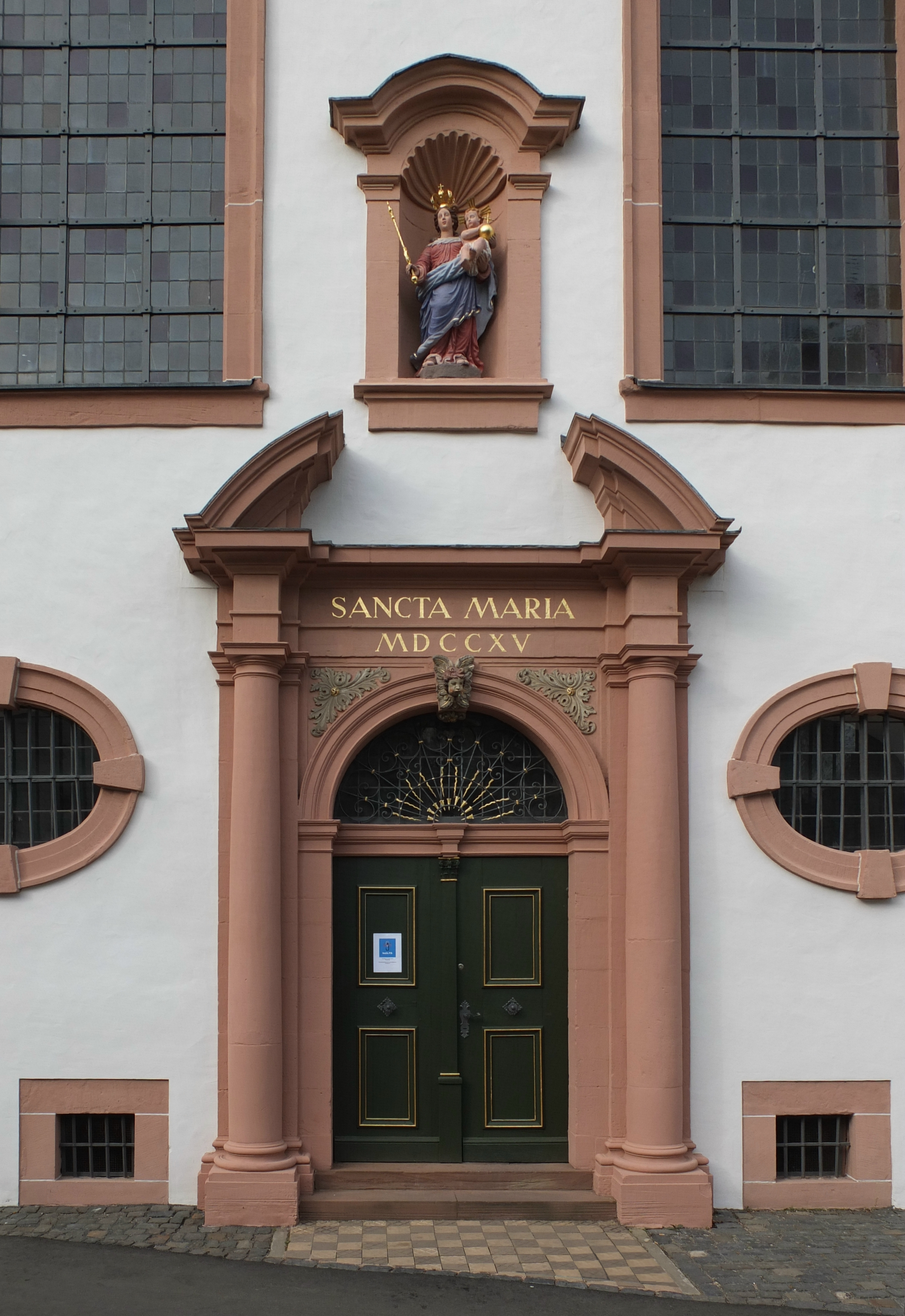 Welschnonnenkirche in Trier, Germany (Portal).